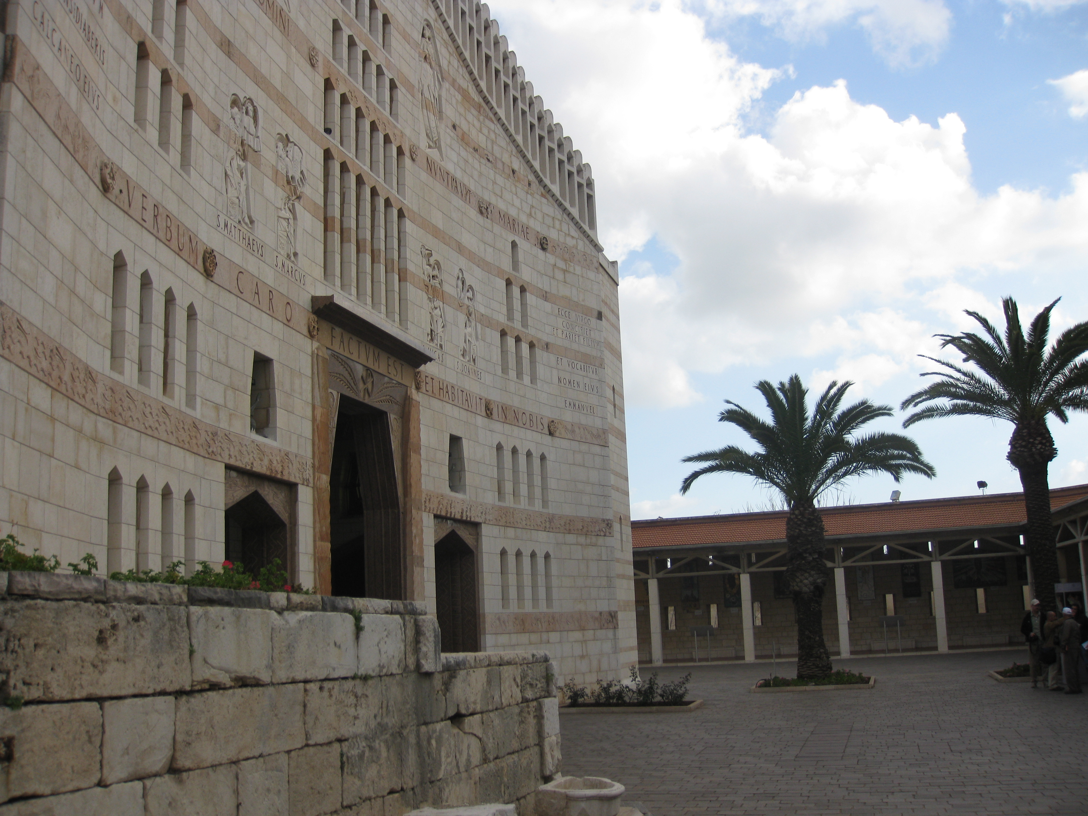 The Church of the Annunciation כנסיית הבשורה בנצרת